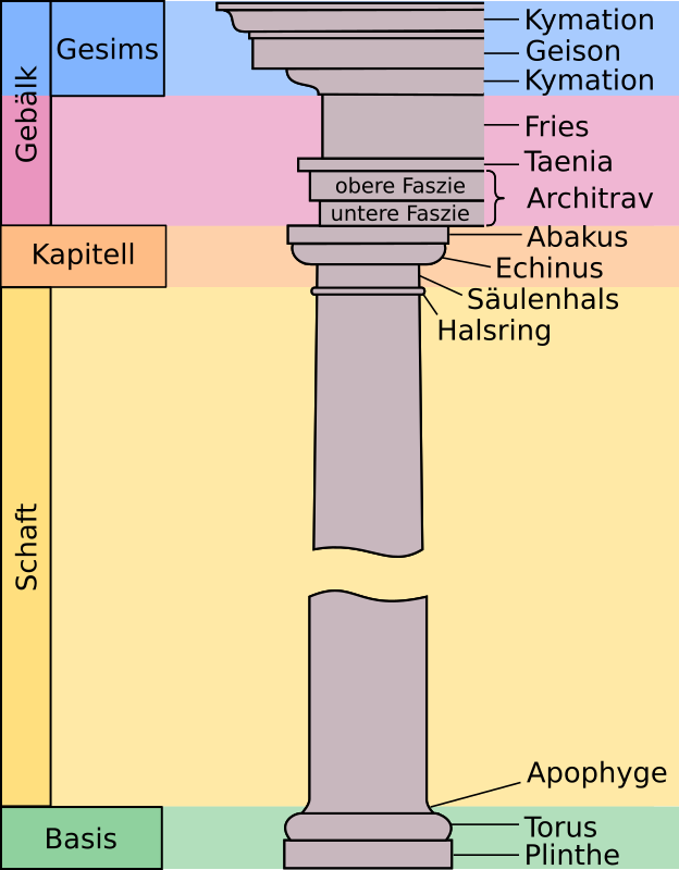 tuscan column